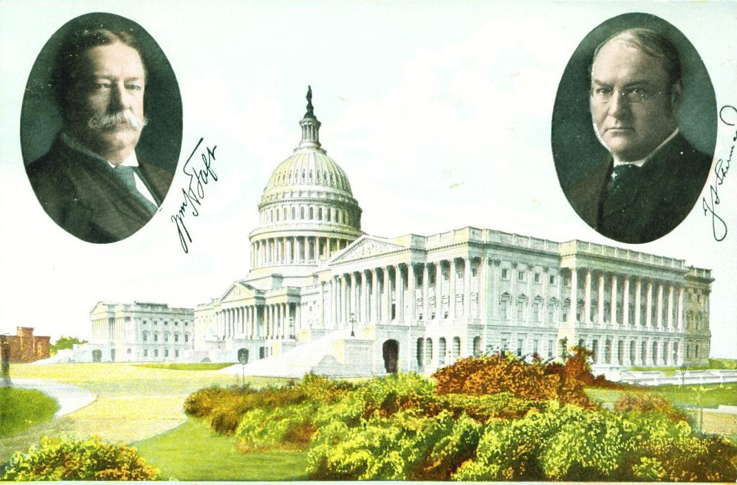 Postcard for United States presidential election; shows U.S. Capitol, U.S. President William Howard Taft and running mate James S. Sherman; store Web page states: "unused multicolored campaign postcard for Taft-Sherman ticket."